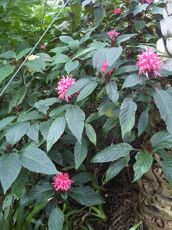 Justicia carnea at the Kew Gardens, England.